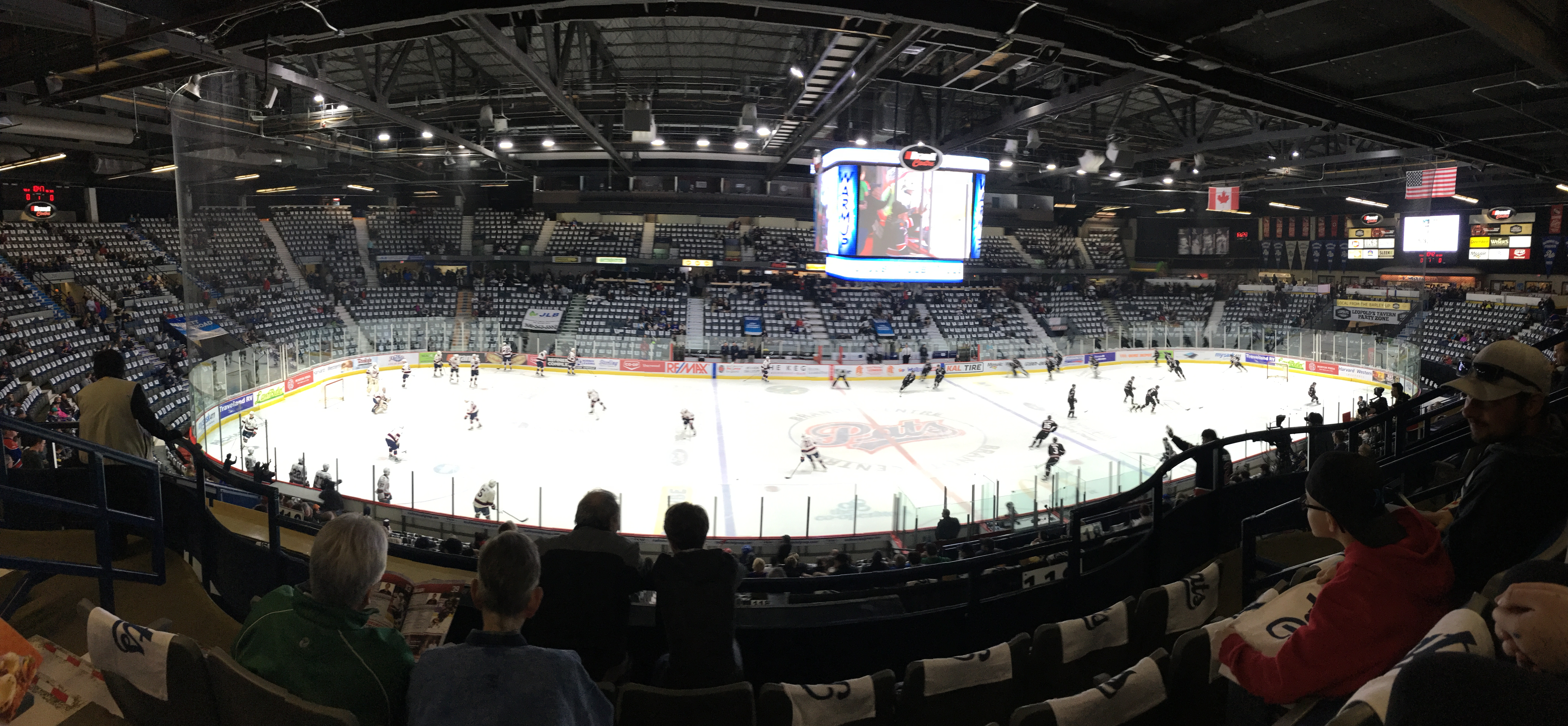 The Brandt center before a 2016 Regina Pats second round playoff game against the Red Deer Rebals